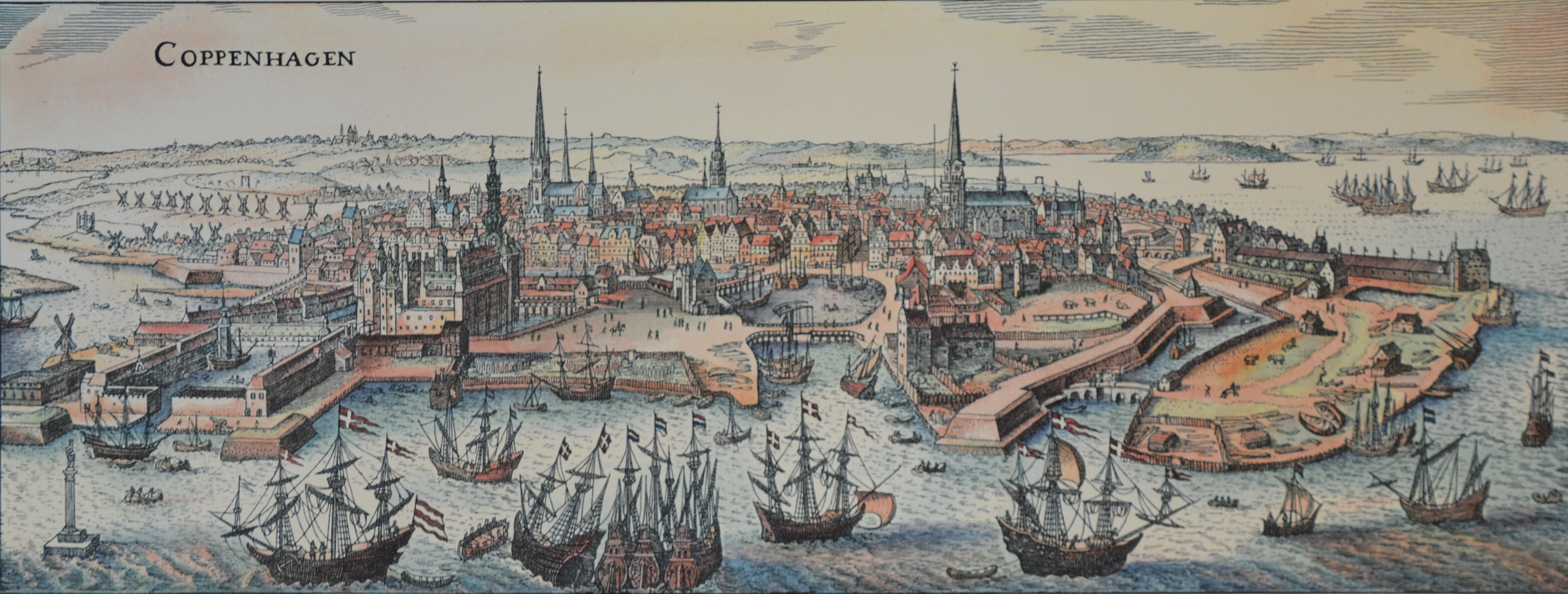 Köpemhamn, M. Meriam 1642